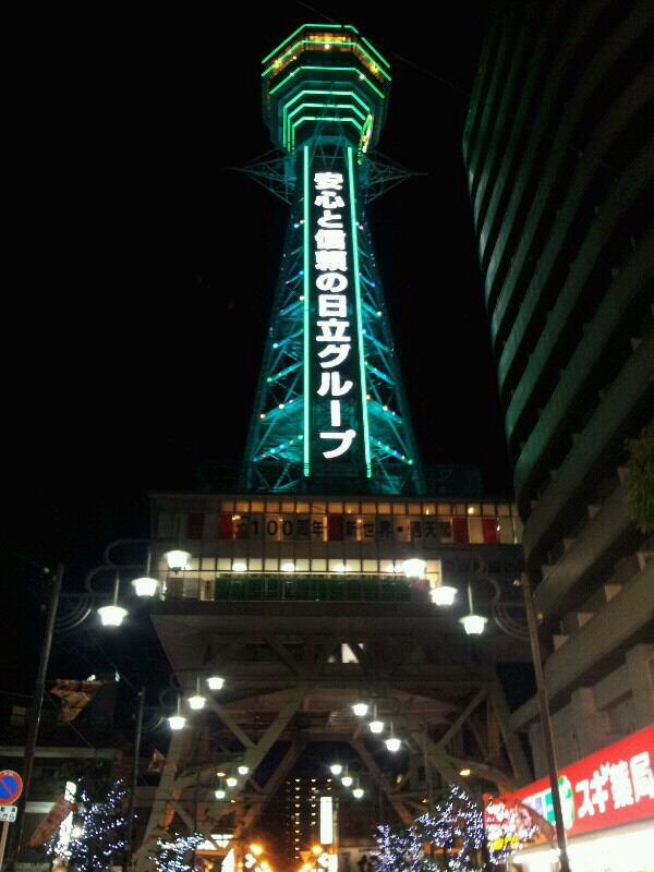 Tsūtenkaku